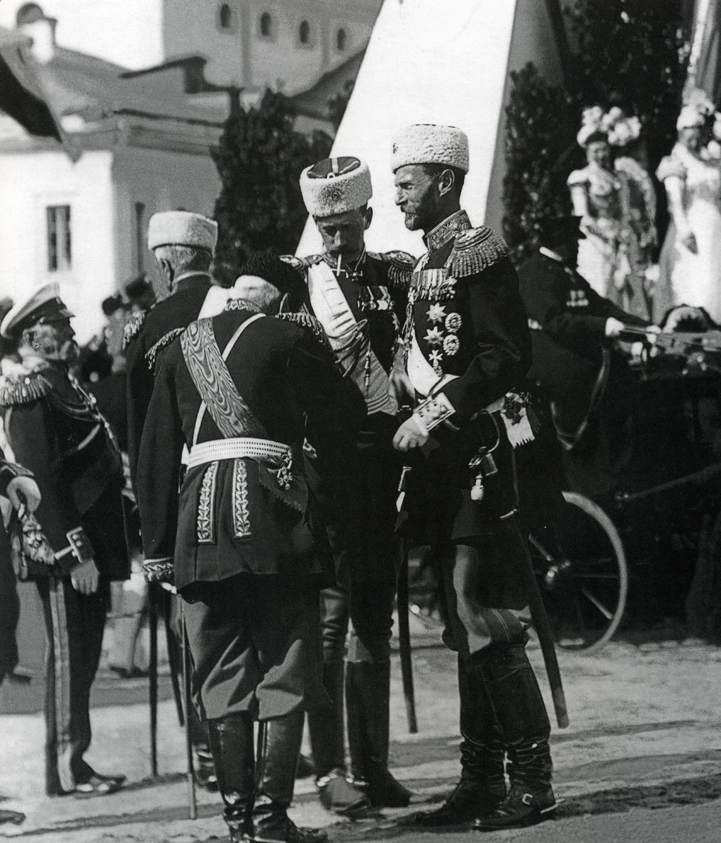 Grand Duke Sergey Alexandrovich (right) and Pavel Alexandrovich (center, smoking) on May 14, 1896, coronation of Nicholas II. Sergey, as military governor of Moscow, managed the whole event and led it into Khodynka disaster